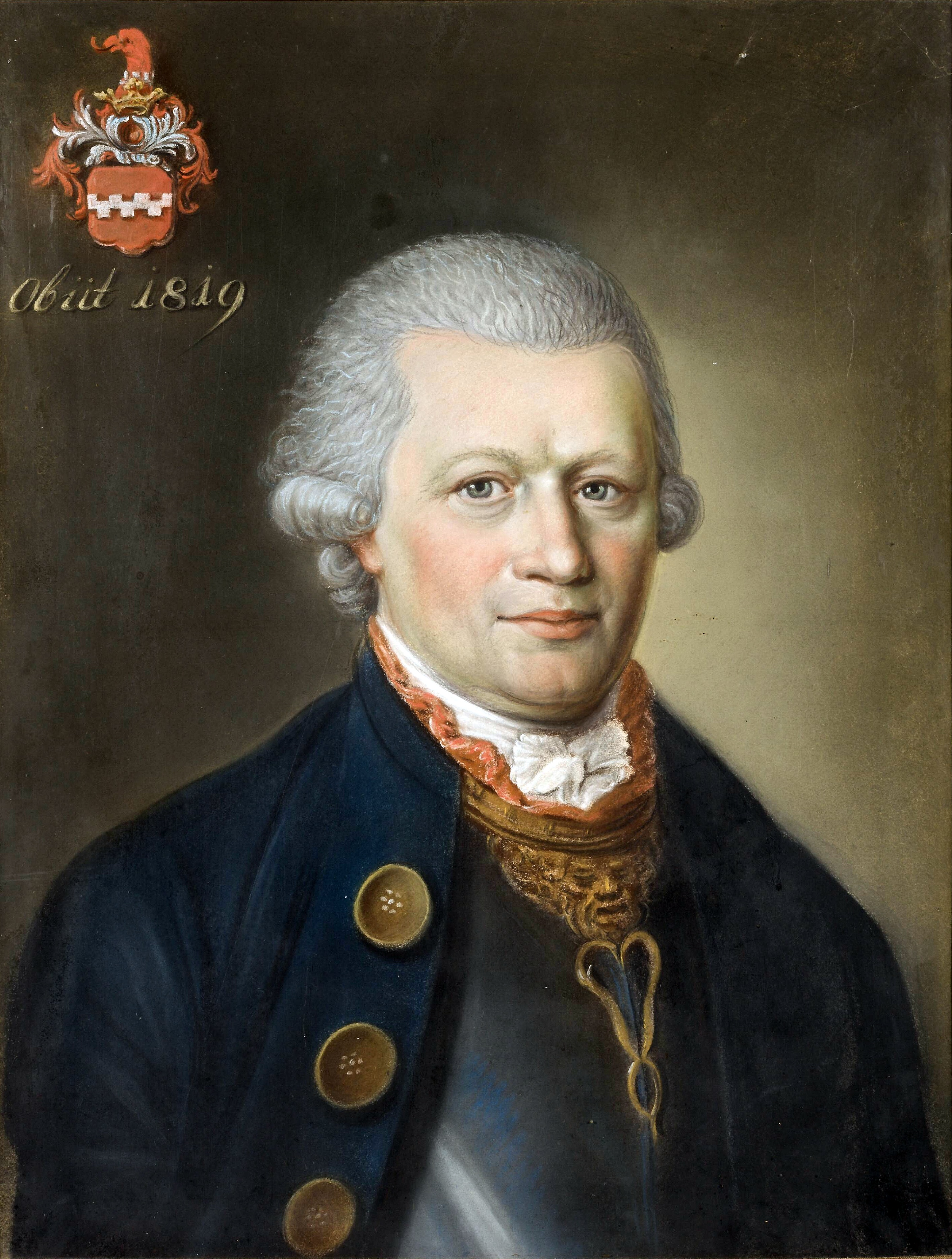 Godefridus Franciscus Antonius Henricus Cornelius van Hugenpoth tot Aerdt (1743-1819)